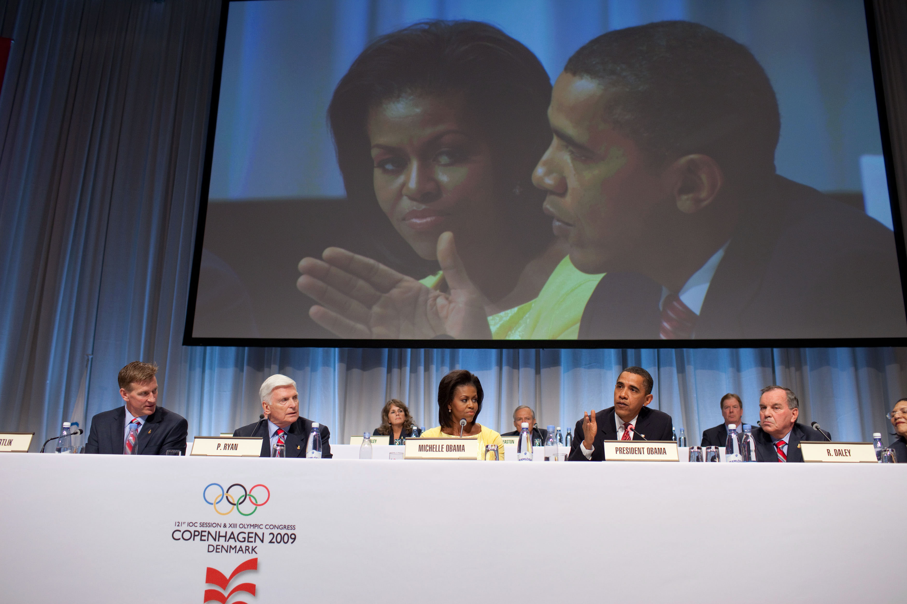 President Barack Obama and First Lady Michelle Obama participate in the question and answer session following the Chicago 2016 presentation to the International Olympic Committee (IOC) in support of Chicago as the host city for the 2016 Summer Olympic Games, at the Bella Center in Copenhagen, Denmark, Oct. 2, 2009. Seated with the Obamas, from left, are Bob Crvrtlik, Chicago 2016 Vice Chairman of International Relations, Patrick Ryan, Chicago 2016 Chairman, and Chicago Mayor Richard M. Daley.